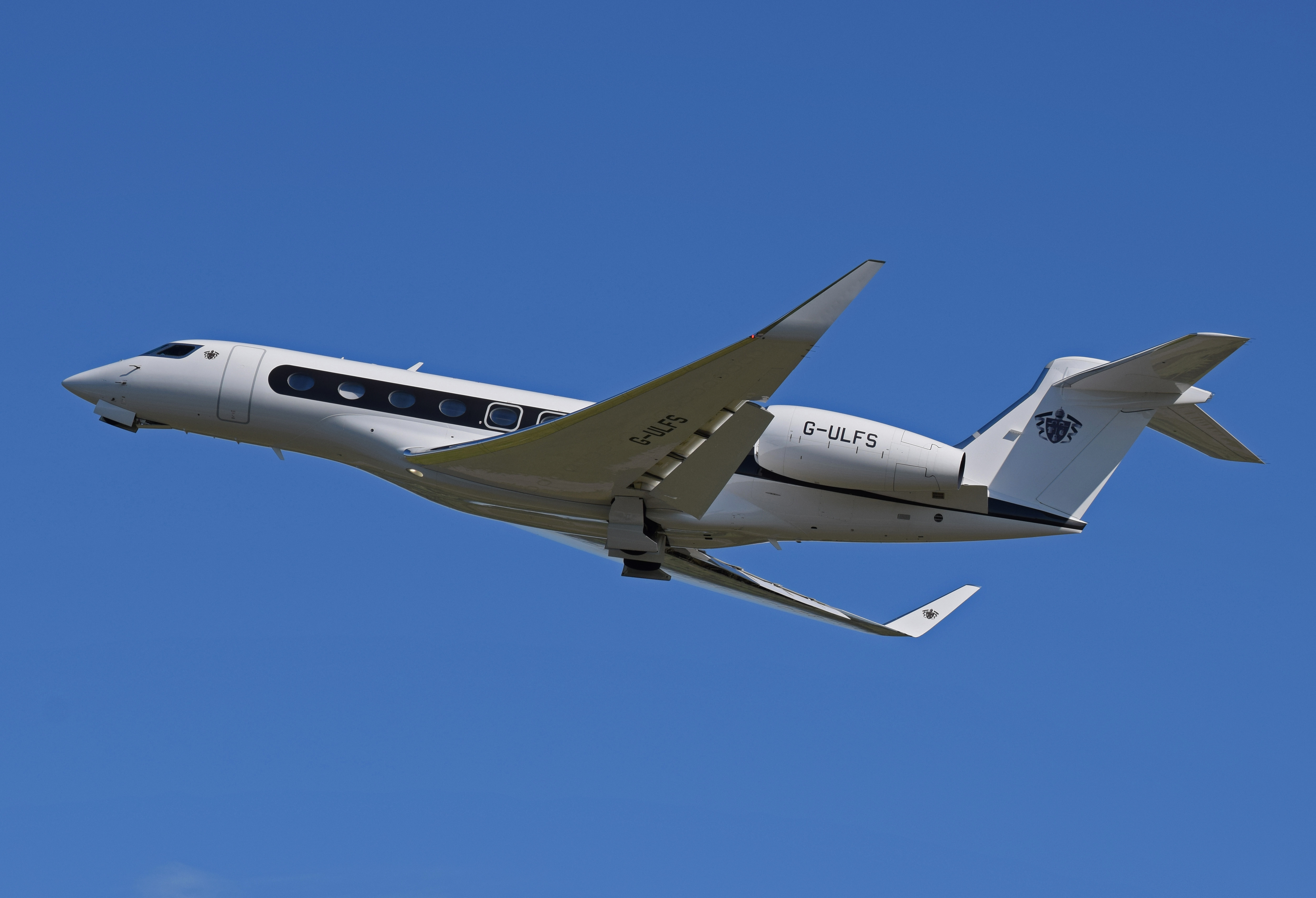 A private Gulfstream Aerospace G650 departs Bristol Airport, England. This aircraft was built in 2013.